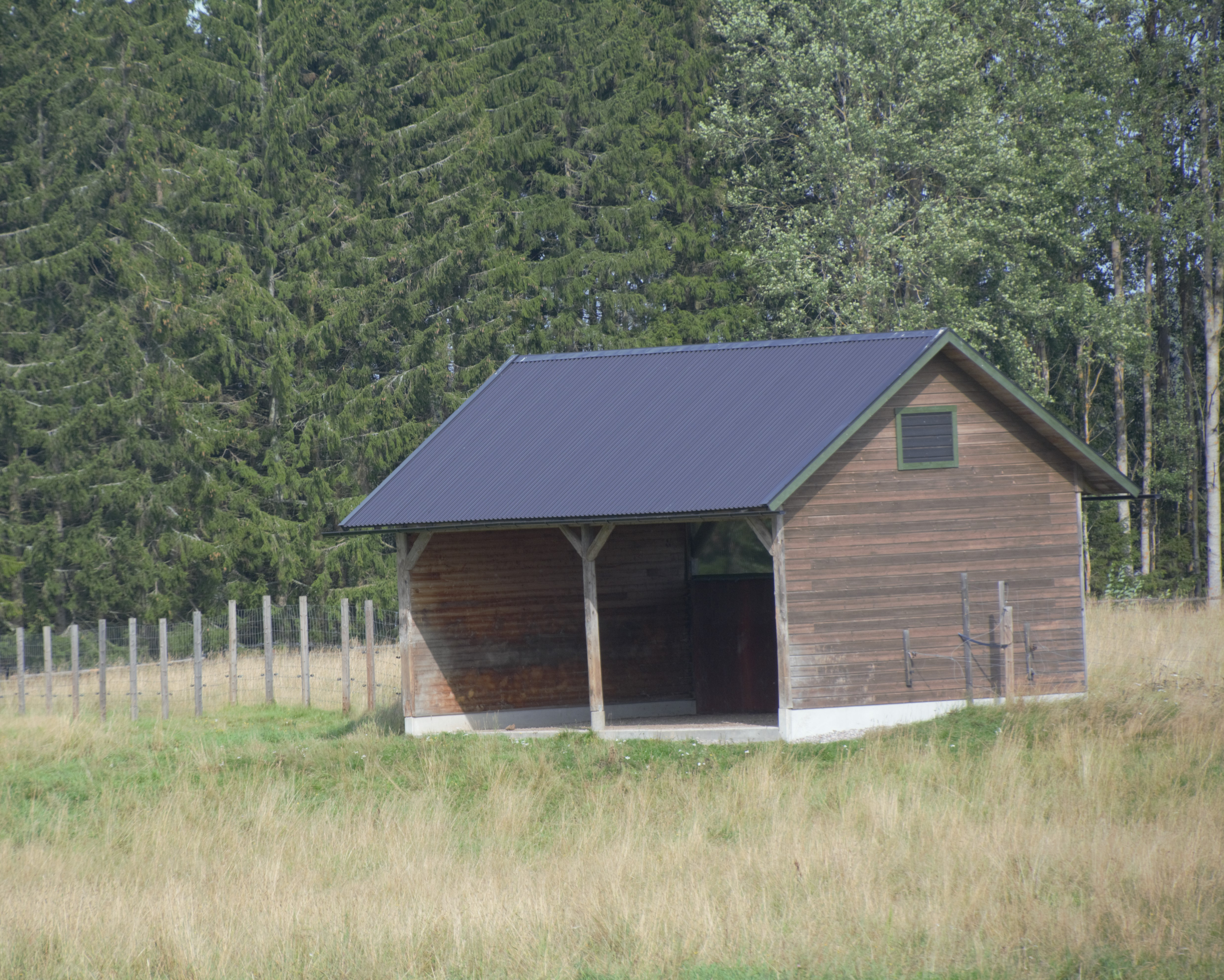 Shelter for European bison at Avesta bisentpark, Sweden. The house model was drafted by Erna Mohn 1947.